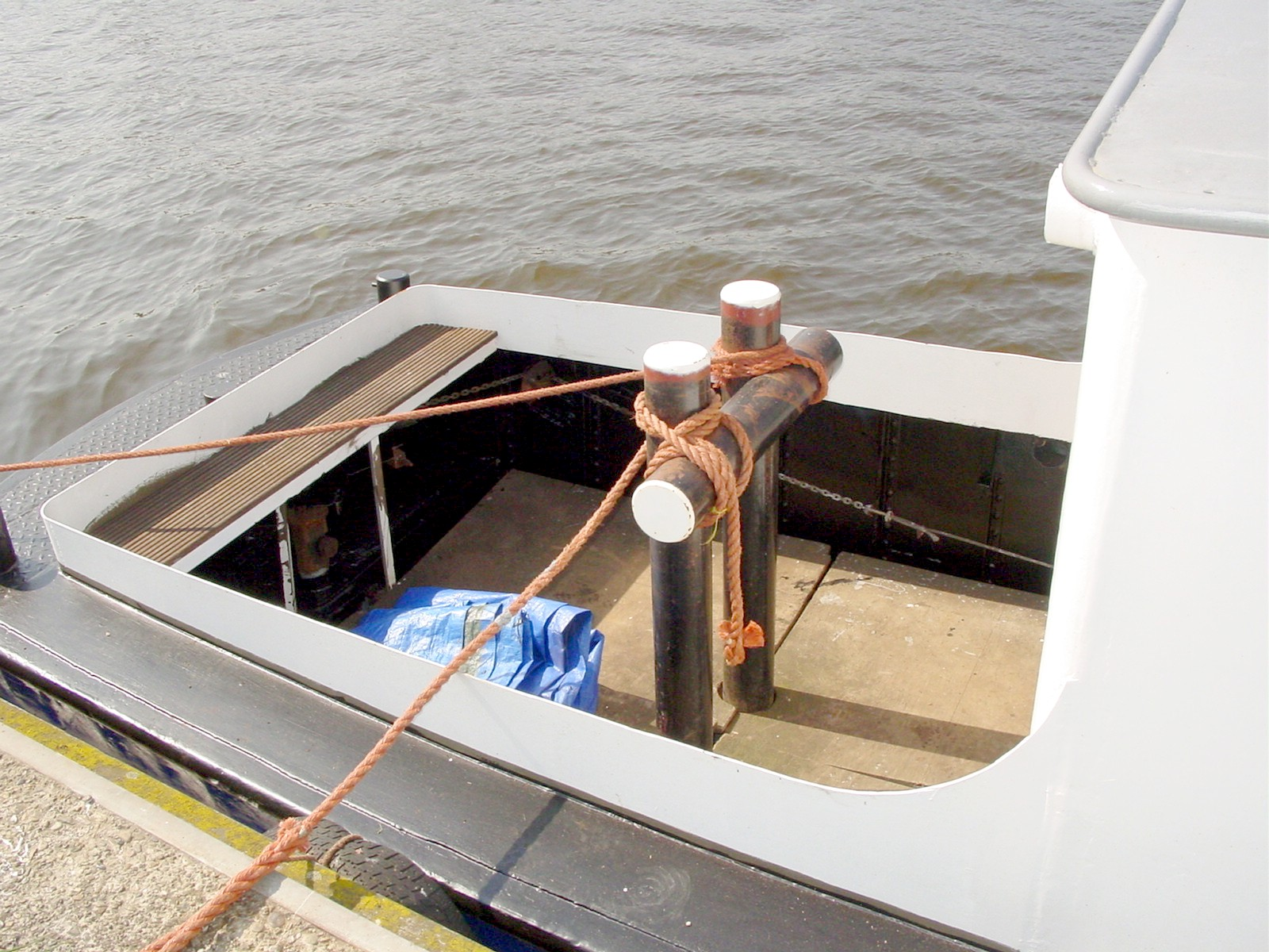 bitts on a tugboat